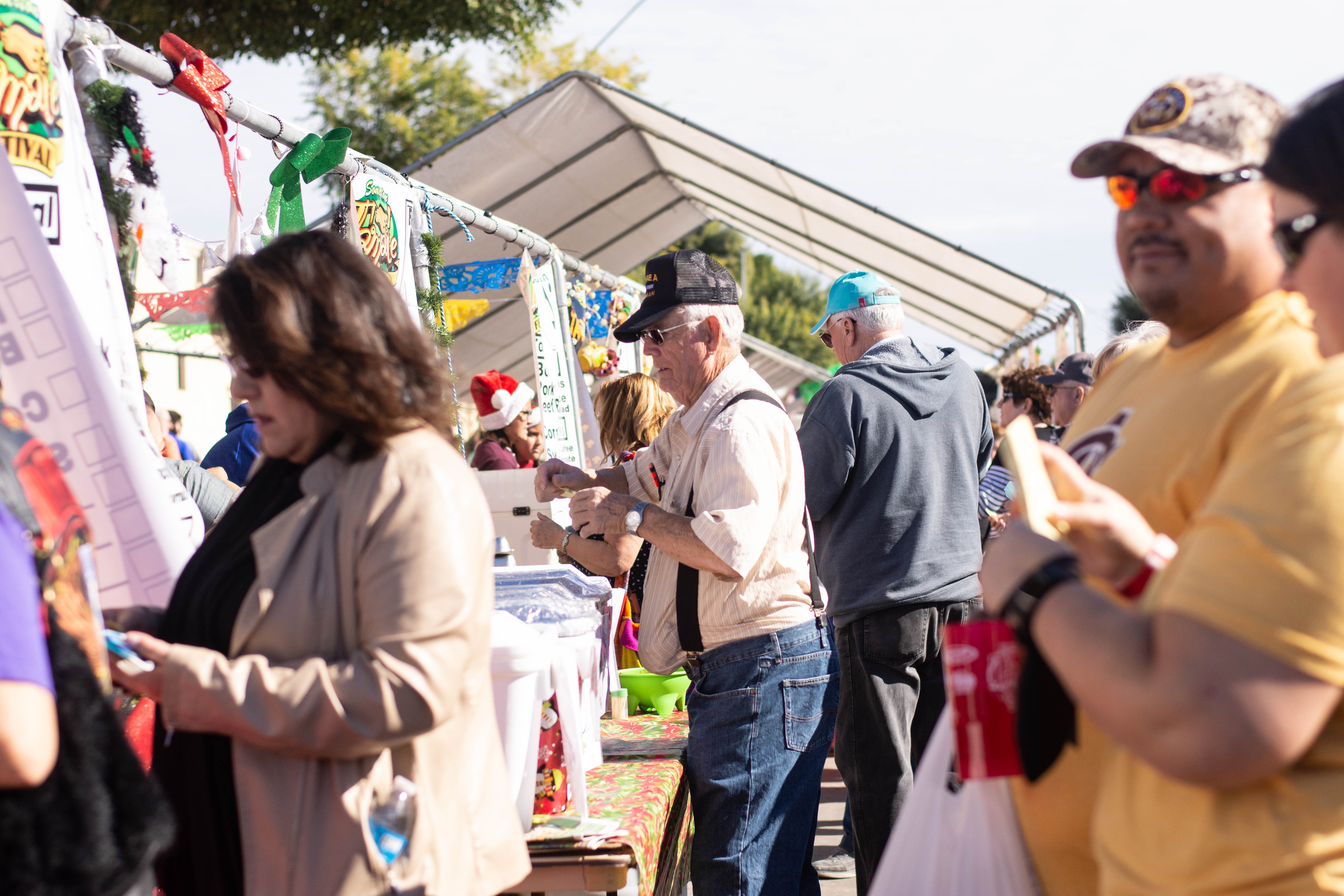 The Somerton Tamale Festival is the Woodstock of tamale events, with more than 30,000 people descending on the little border town southwest of Yuma. Visitors can sample dozens of varieties ranging from traditional beef and chicken to pork, turkey, corn and spinach tamales. There are even sweet tamales filled with pineapple, peach, and strawberry. This is the 12th year for the festival, with all proceeds helping to provide Arizona State University scholarships to local students.